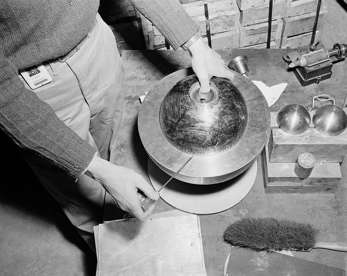 A recreation of Slotin's experiment.